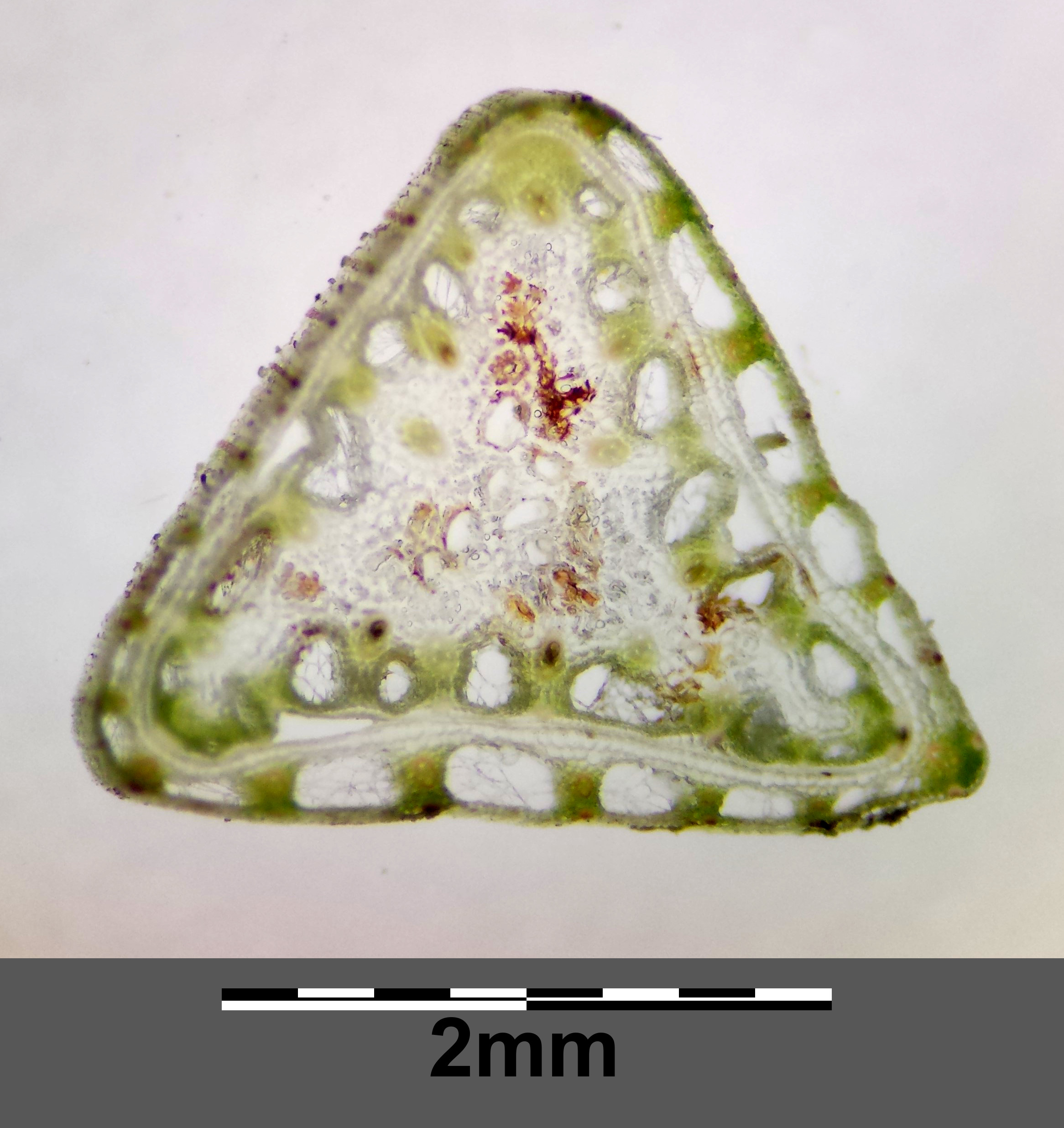 Triangular stipe (sliced) Taxonym: Cyperus fuscus ss Fischer et al. EfÖLS 2008 ISBN 978-3-85474-187-9 Location: pond near Goldenes Bründl, Rohrwald, district Korneuburg, Lower Austria - ca. 225 m a.s.l. Habitat: shore of a pond